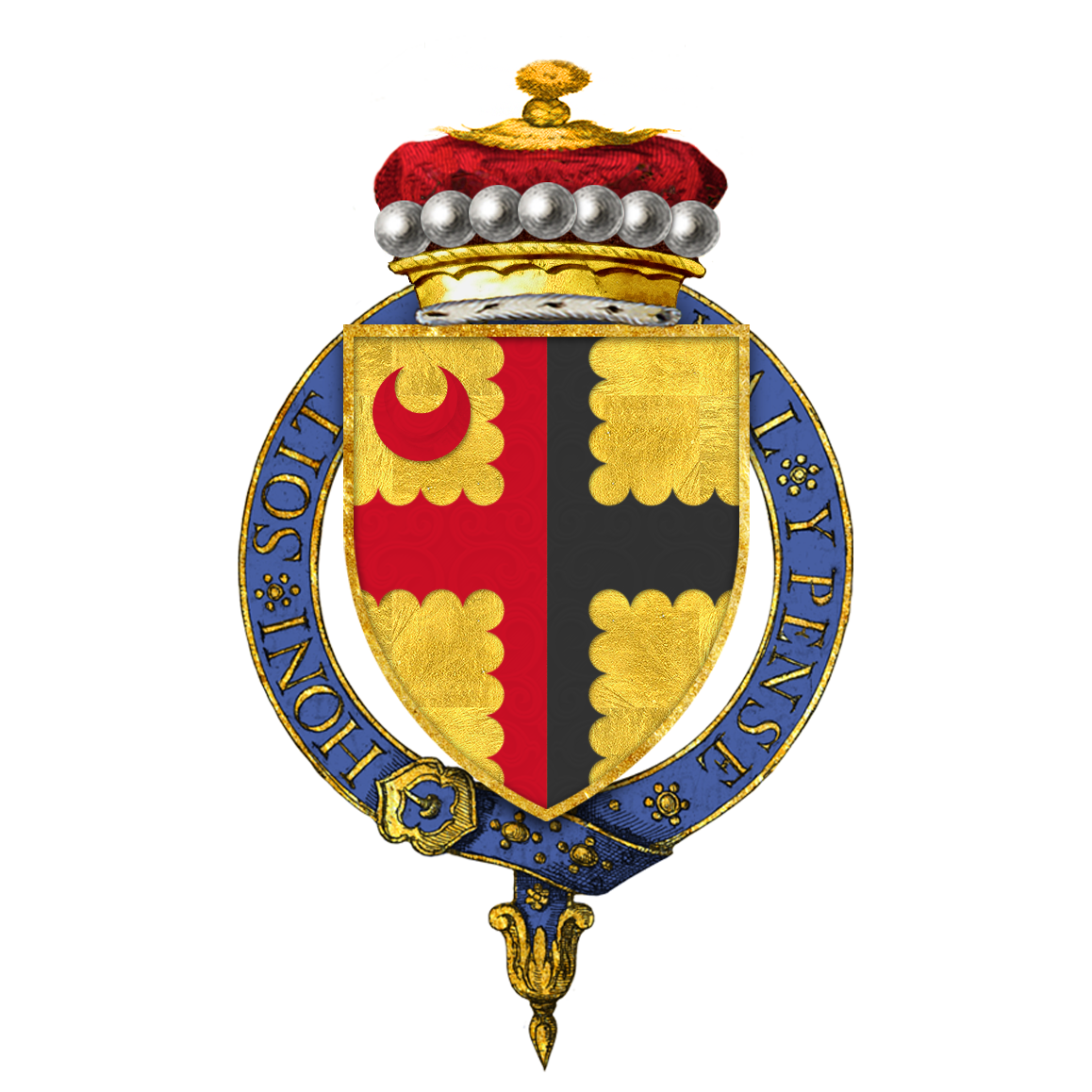 Garter-encircled coat of arms of Alan Brooke, 1st Viscount Alanbrooke, KG, as displayed on his Order of the Garter stall plate in St. George's Chapel, Windsor Castle.